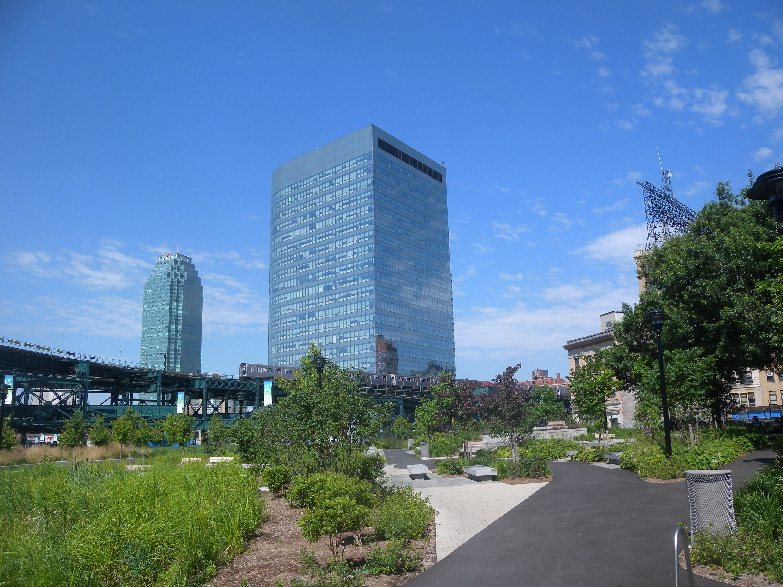 Looking west from the east end of Queens Plaza at the newly renovated Plaza and new Gotham Center on a sunny late morning.